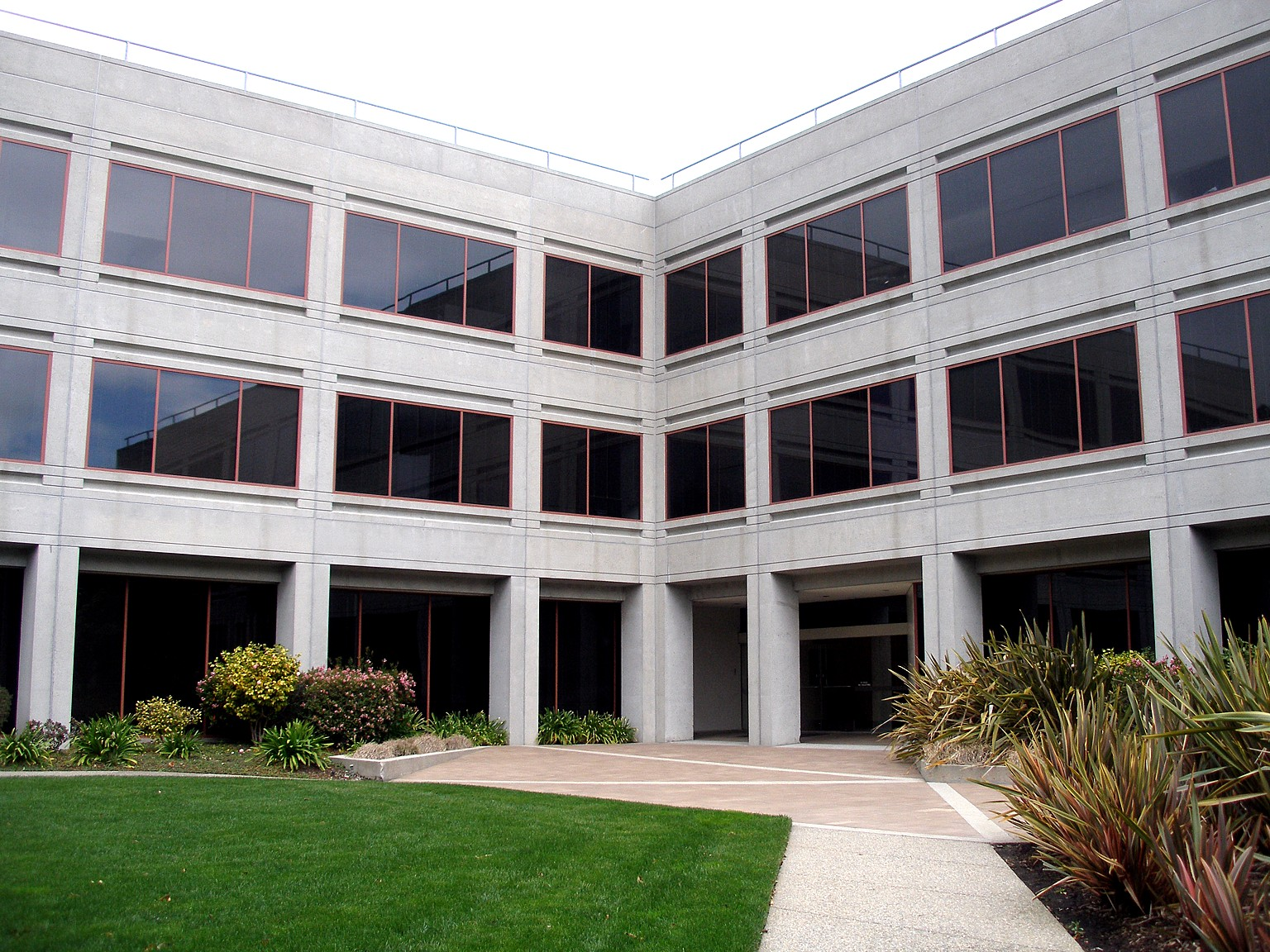 YouTube headquarters at 1000 Cherry Avenue in San Bruno, California. YouTube moved into this building in October 2006, after outgrowing their previous headquarters in a loft above a pizzeria. This small office building is located just east of the interchange of Interstate 280 (California) and Interstate 380 (California). Photographed by user Coolcaesar on February 24, en:2007.